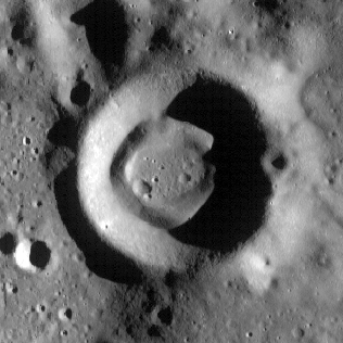 Concentric crater Lagrange T on the Moon, in highlands to the west from Mare Humorum, on the edge of big crater Lagrange W (to the left). Its diameter is about 12 km. It is number 40 in the list of concentric craters by Wood, 1978. Photo by Lunar Reconnaissance Orbiter, made with Wide Angle Camera on 9 December 2011 from altitude 41 km. Sun elevation is 13.8°. Width of the photo is 20 km, north is approximately up.